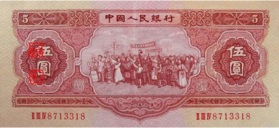 Front of second series 5 yuan renminbi (version 1)